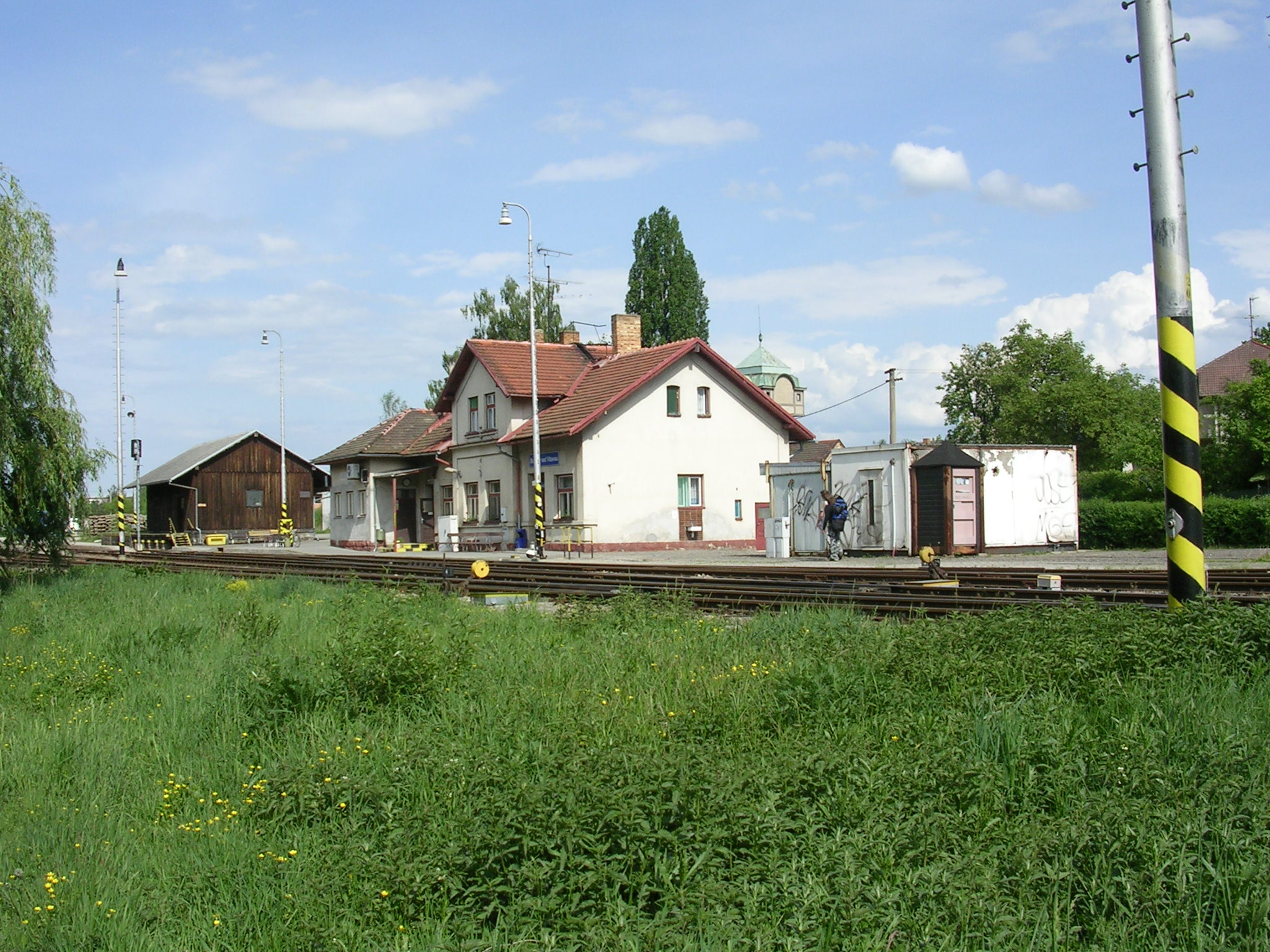 Boršov nad Vltavou, České Budějovice District, South Bohemian Region, the Czech Republic. A train station.